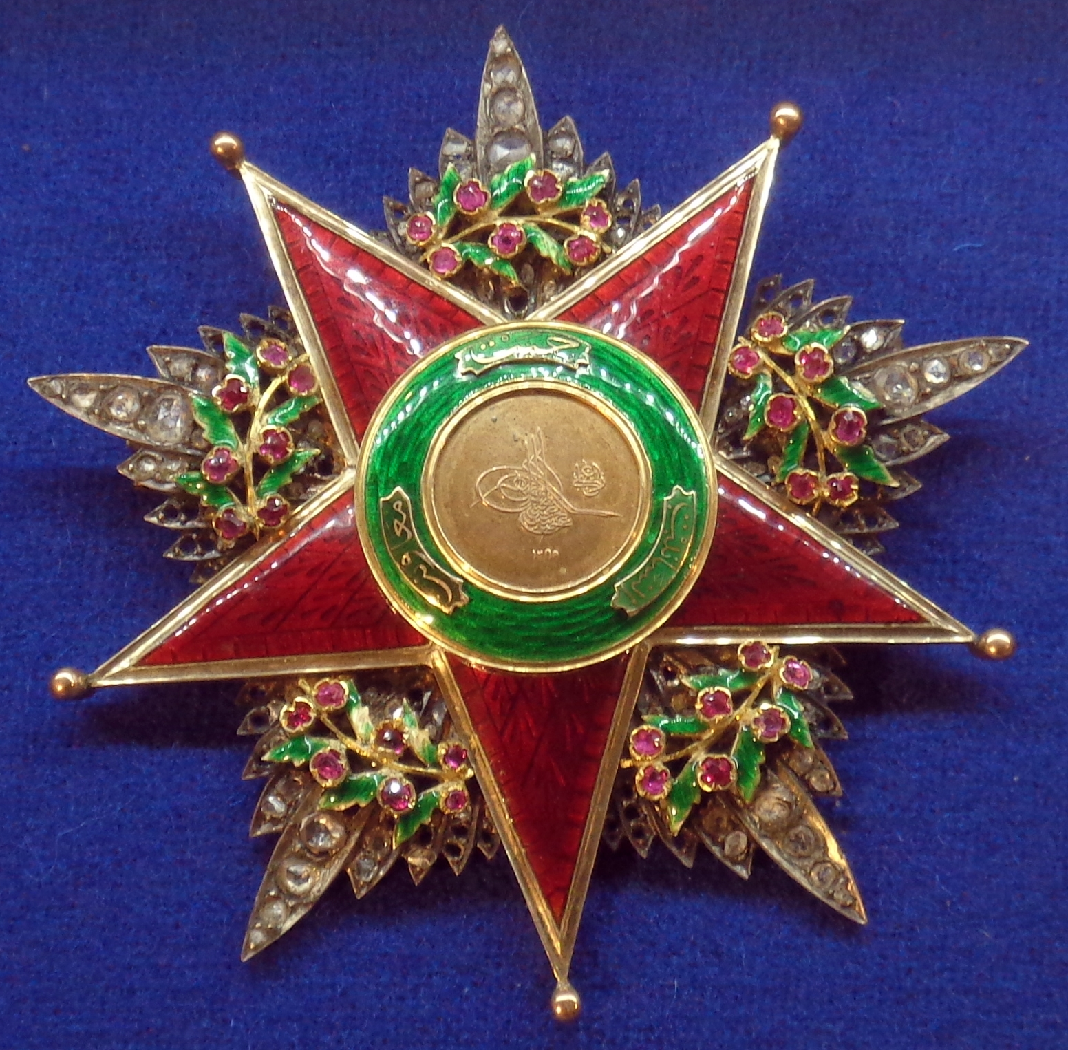 Order of Charity 1st class, star, c.1900. Ottoman Empire. The exhibition of the Tallinn Museum of Orders of Knighthood, Estonia.